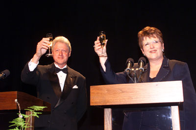 United States President Bill Clinton and New Zealand Prime Minister Jenny Shipley join in a toast during a gala at the Royal New Zealand Air Force Museum in Christchurch. September 15, 1999 photo by David Scull